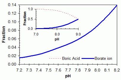 Distribution between boric acid and borate ion versus pH assuming pKa = 9.0 (e.g. salt-water swimming pool)